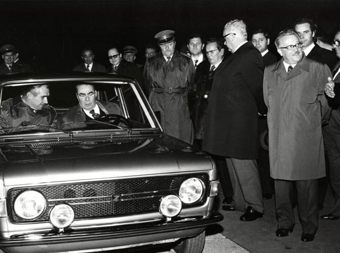 Tito and Leonid Brezhnev in factory Zastava in Kragujevac